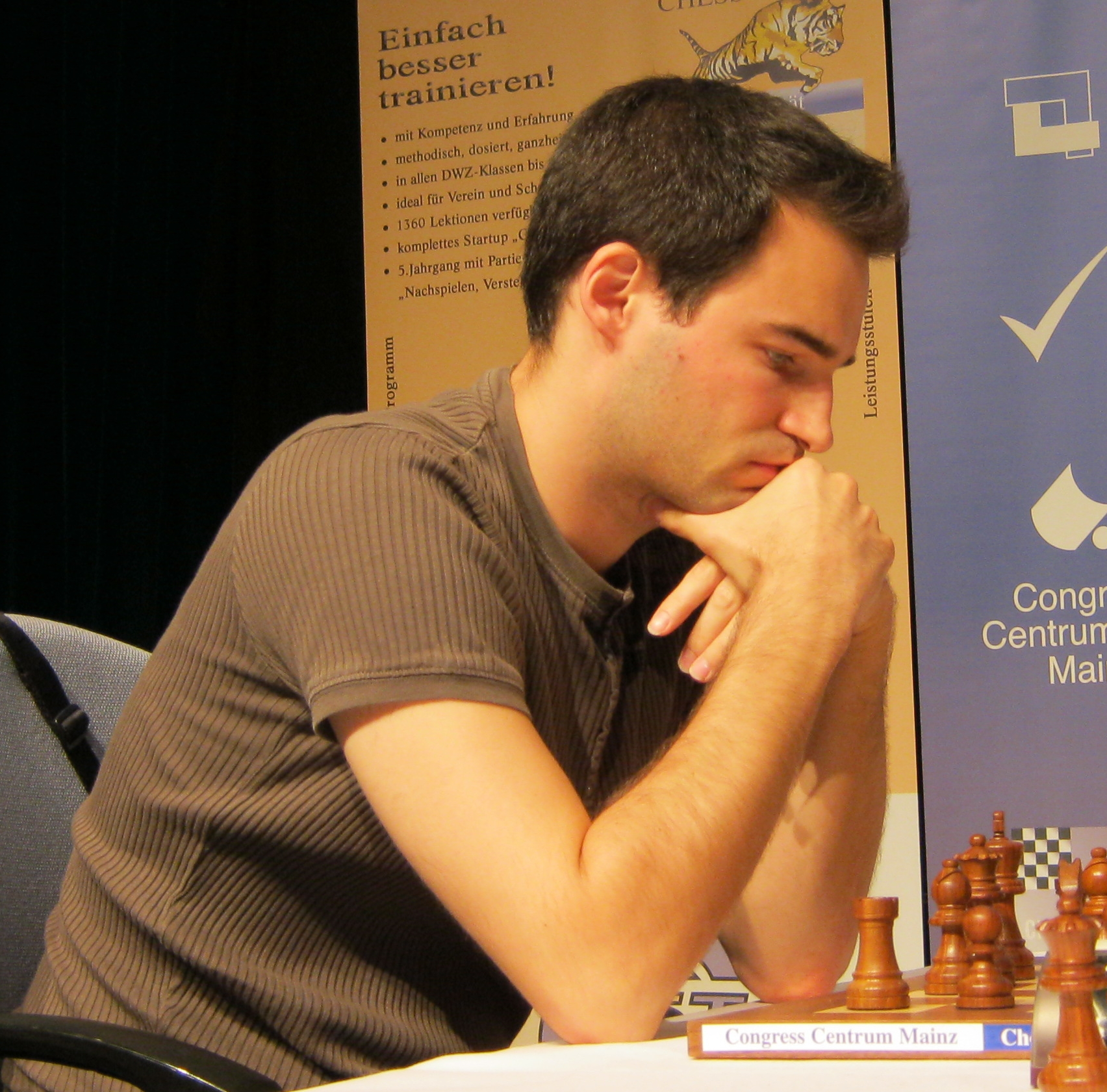 Yannick Pelletier, Swiss chess grandmaster, at Mainz Chess Classic